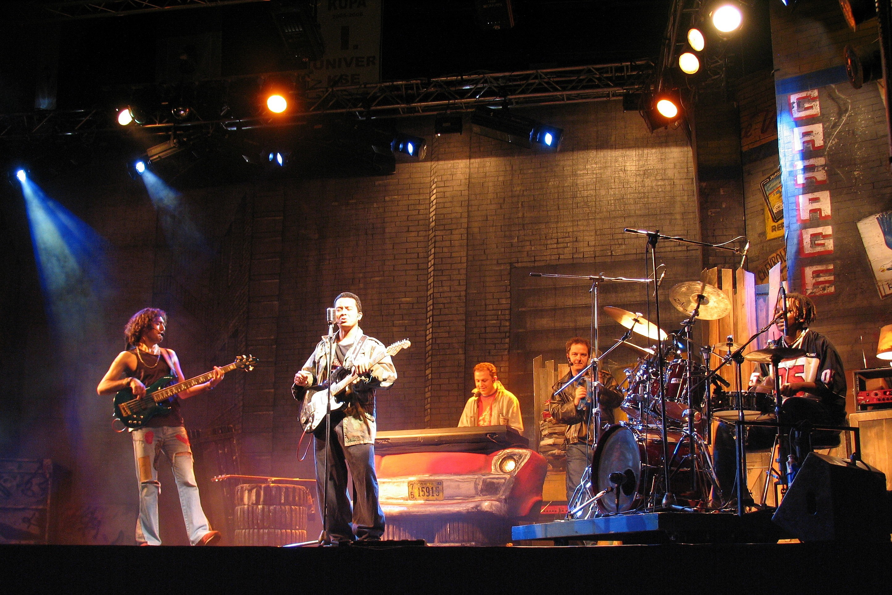 Gen Rosso live in Kecskemét, 2008